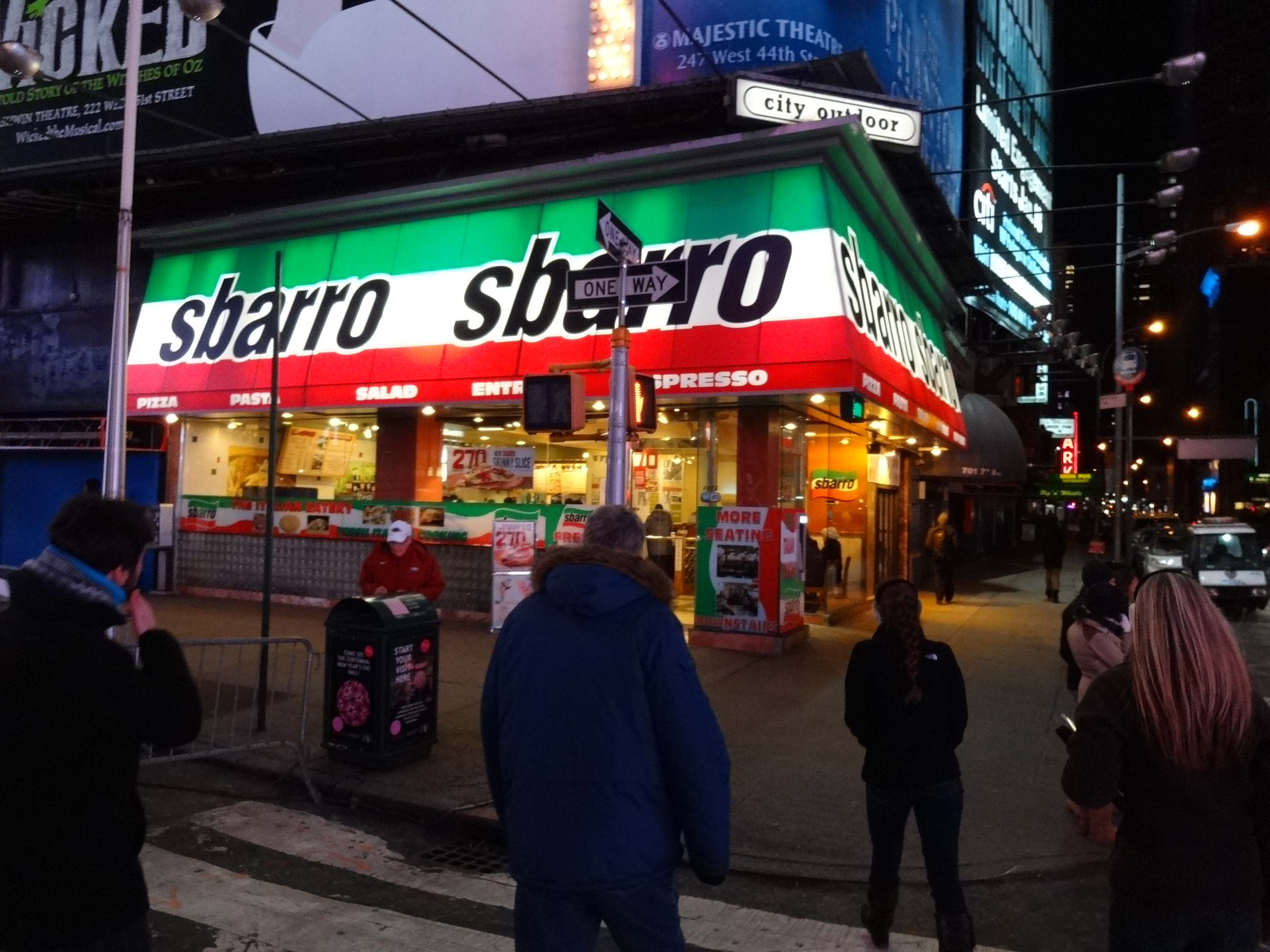 Sbarro at 7th Avenue and West 47th Street near Times Square, New York, NY.